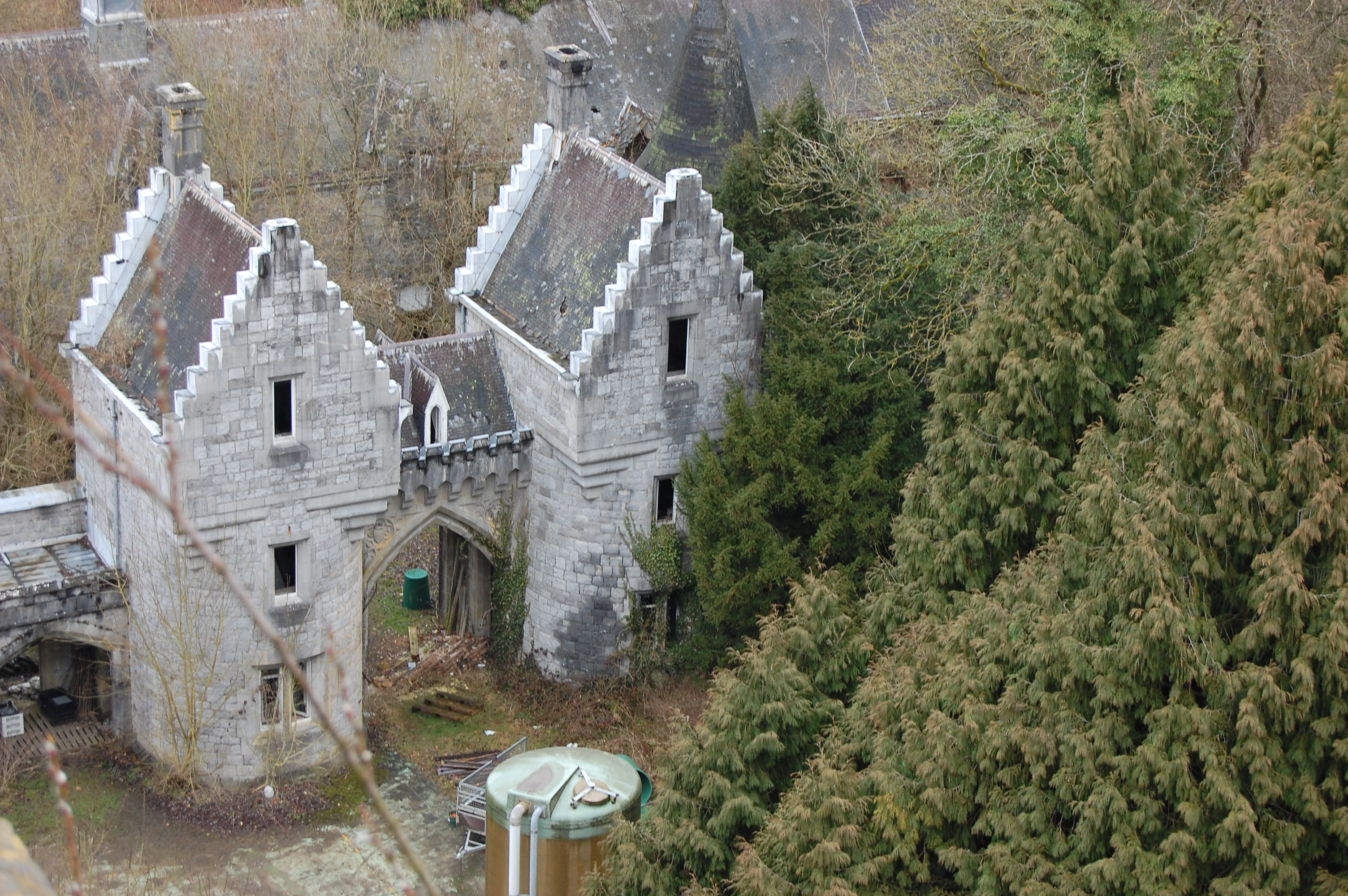 The original gate that you had to enter before you could enter Castle Miranda.